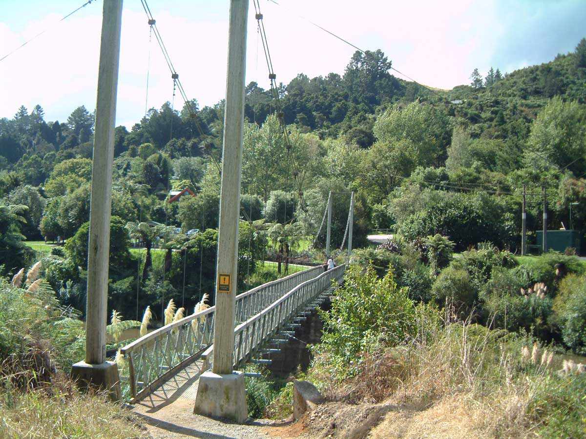 Karangahake Gorge Footbridge. Taken by me, Ben Davies, March 2005, using a FijiFilm FinePix 6800. digital camera.